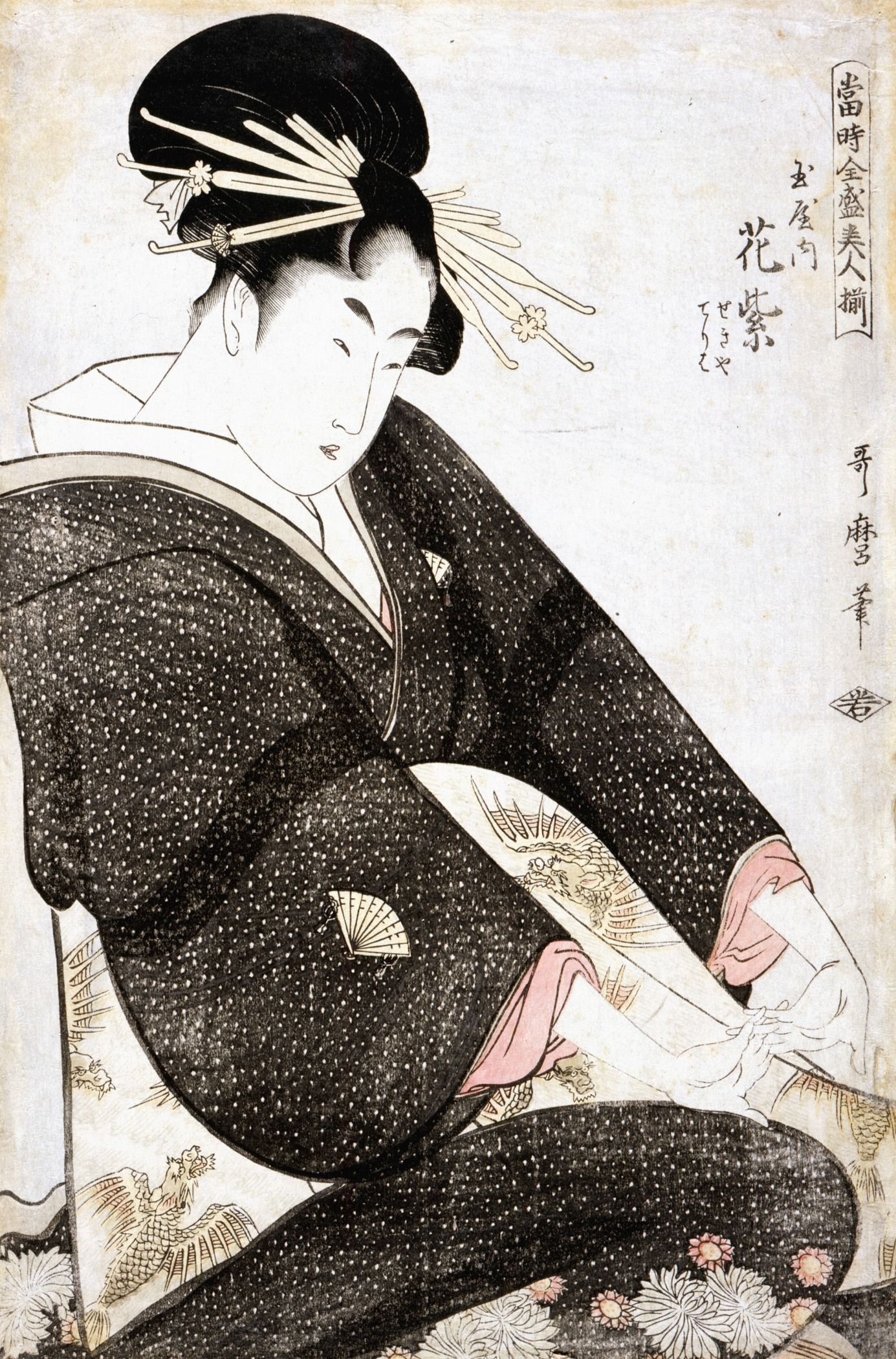 Japan, 1794 Prints; woodcuts Color woodblock print Image and sheet: 15 x 9 13/16 in. (38.1 x 24.92 cm) Gift of Max Palevsky (M.2003.168.2) Japanese Art